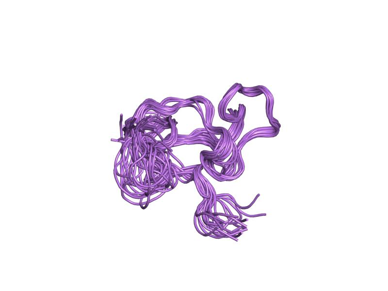 Cartoon representation of the molecular structure of protein registered with 1pxe code.